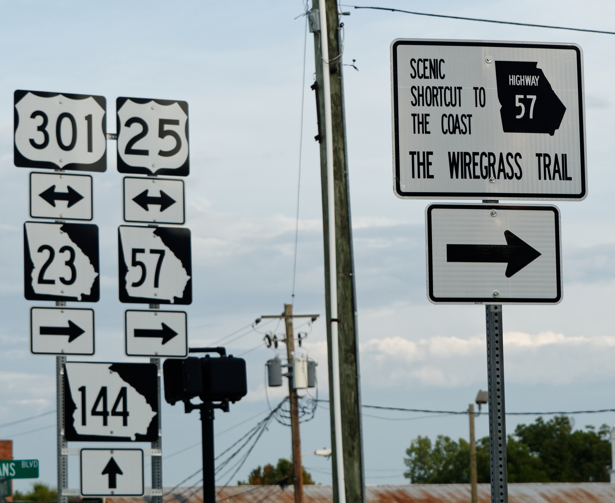 Sign for Georgia Route 57, wiregrass trail, scenic route